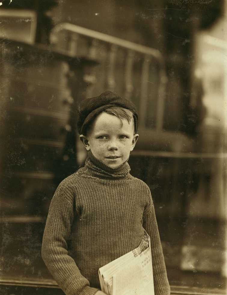 An eight year old newsie named Gurley. 18th & Washington Sts. Location: St. Louis, Missouri.